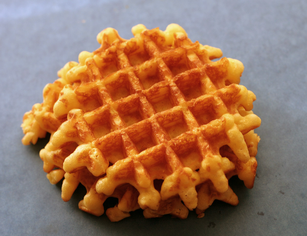 Soft waffle